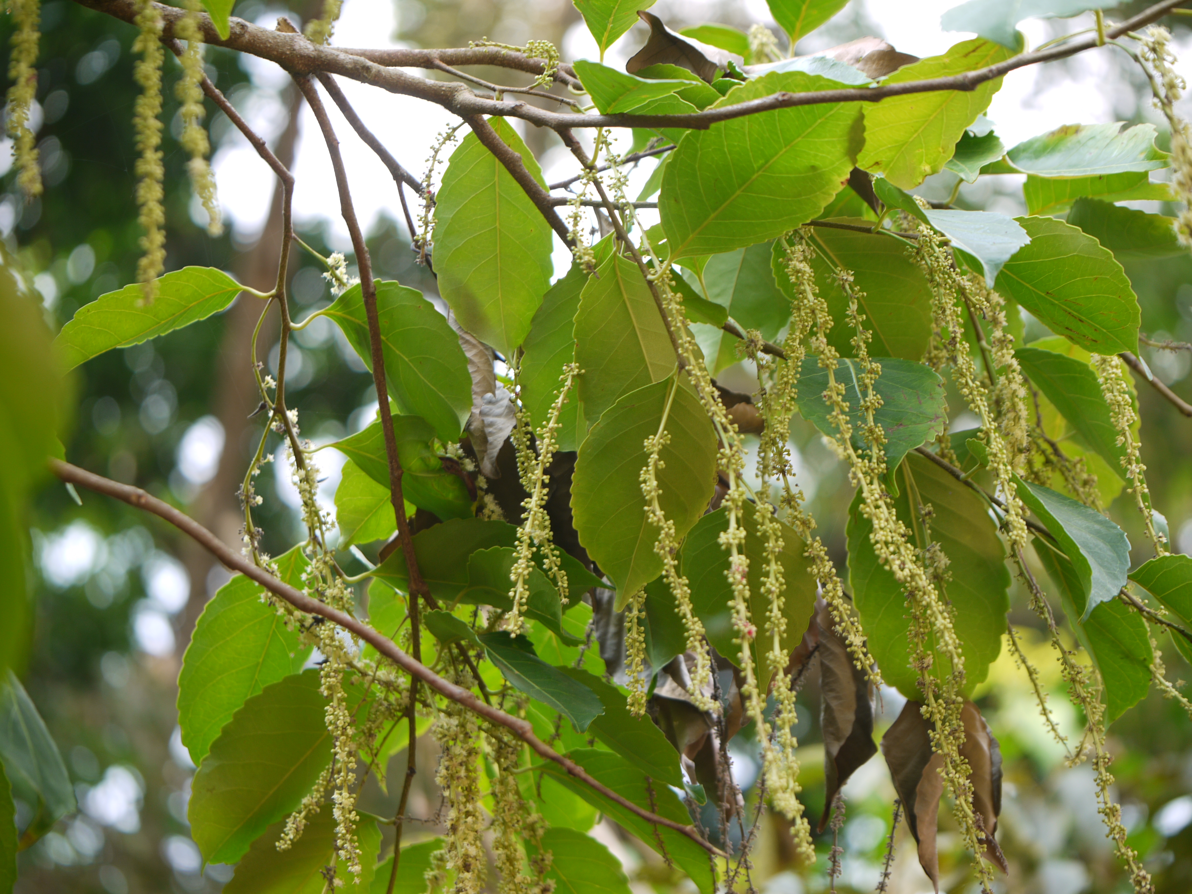 Flacourtiaceae (coffee plum family) » Homalium ceylanicum (Gard.) Benth. hom-AL-ee-um -- Greek: homalos (consistent); stamens of some species in regular fascicles ... Vernacular list of trees, shrubs, and woody climbers in the Madras Presidency (1915) see-LAN-ik-um -- of Ceylon (present day Sri Lanka) ... Dave's Botanary commonly known as: kalladamba, liyan, mukki • Kannada: ¿ ಹುಳಿಕಡ್ಡಿ ? ಮರ hulikaddi mara, ಕಾಲ kala, ಕಳಮಟ್ಟಿಗ kalamattiga • Malayalam: കലവാരം kalavaram, കല്ലടമ്പ kalladamba, കലുവാലുക kaluvaluka, മാന്തലമുക്കി manthalamukki • Marathi: होमाली homali • Telugu: manthralamukhi Native to: s China, Bangladesh, Western Ghats (of India), Nepal, Myanmar, Sri Lanka, Thailand, Laos, Vietnam References: Biotik • Flora of China • Further Flowers of Sahyadri by Shrikant Ingalhalikar